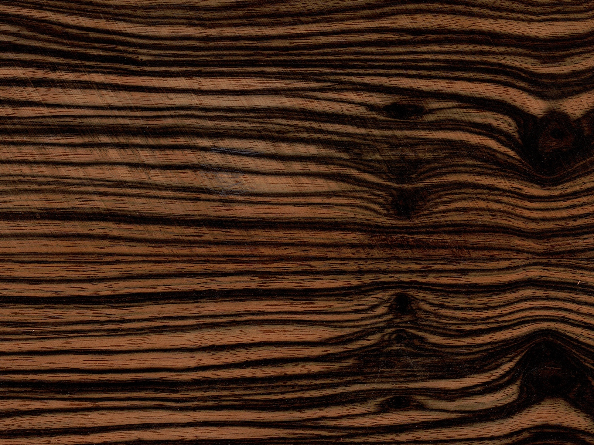 Macassar Ebony, Southeast Asia